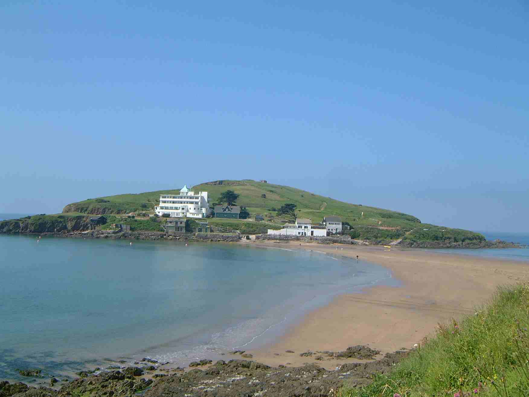 Photograph of Burgh Island seen from the mainland.